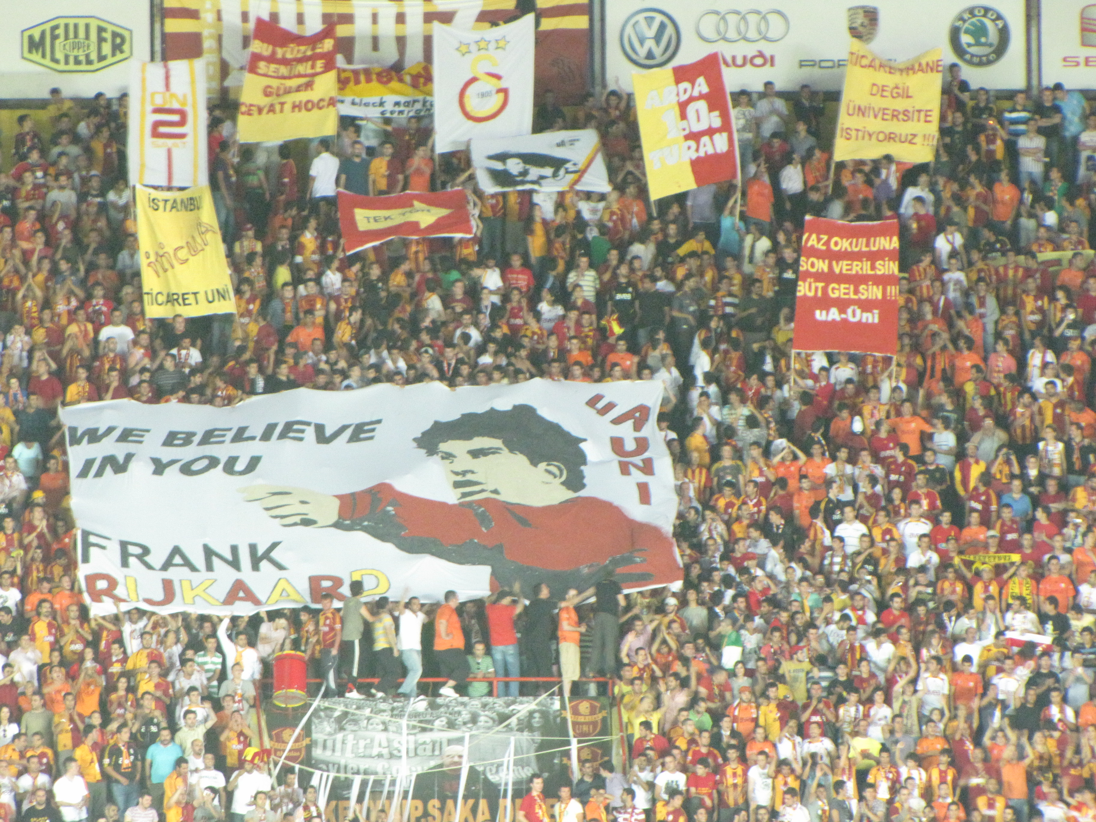 Galatasaray-Tobol European Cup 23.07.2009